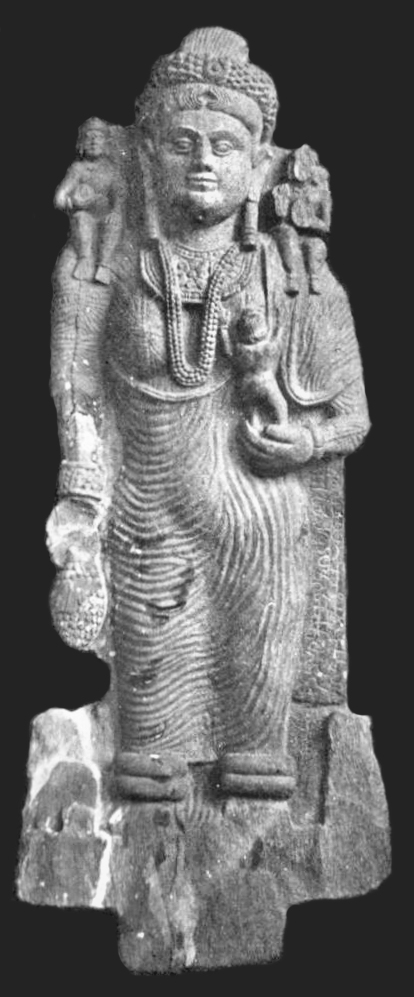 Skarah Dheri Hariti inscribed Year 399